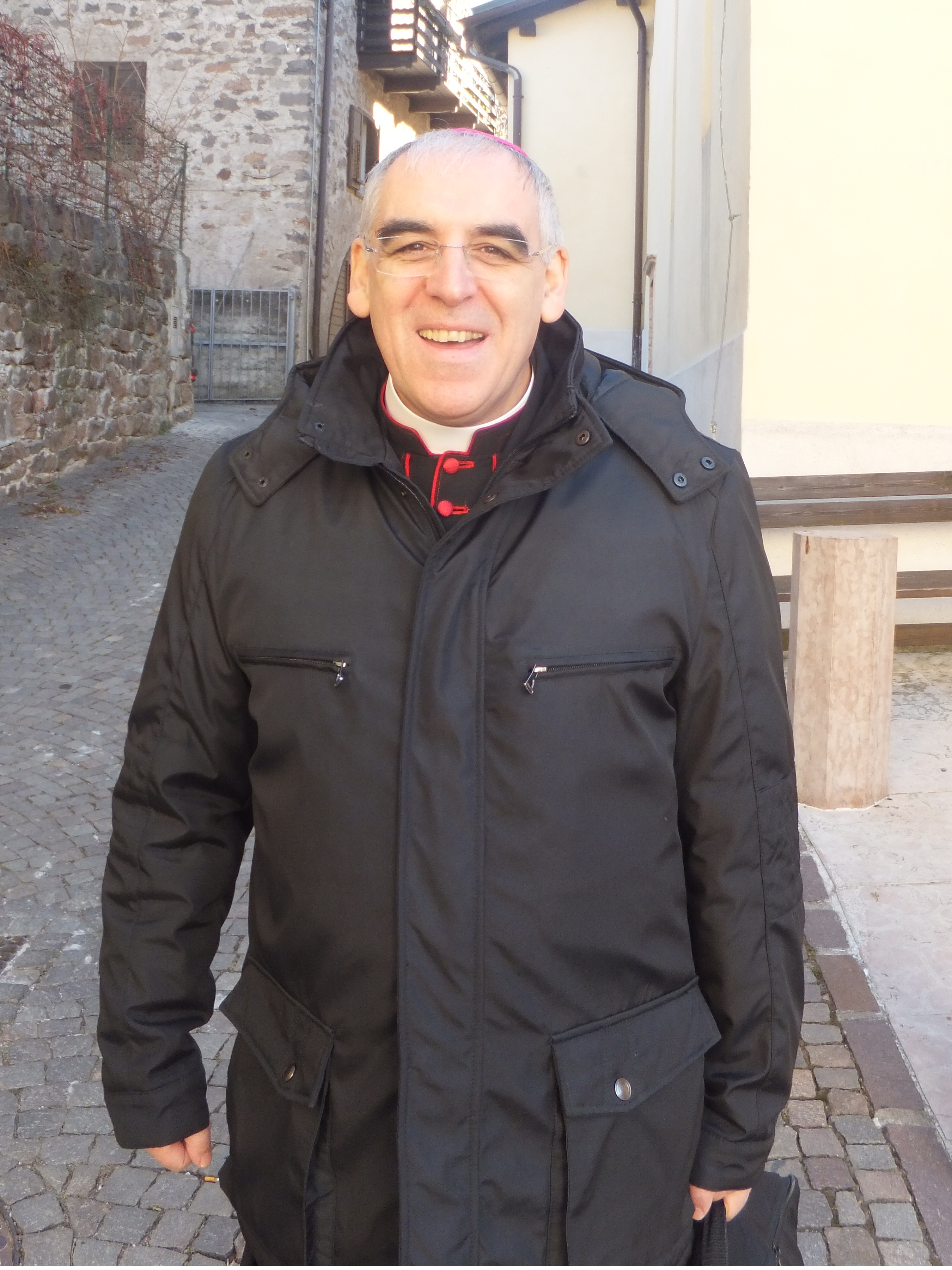 Archbishop of Trento Lauro Tisi during a pastoral visit in Piazzo (Segonzano, TN)